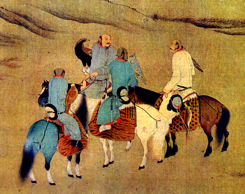 Khitans using eagles to hunt (berkutchi).